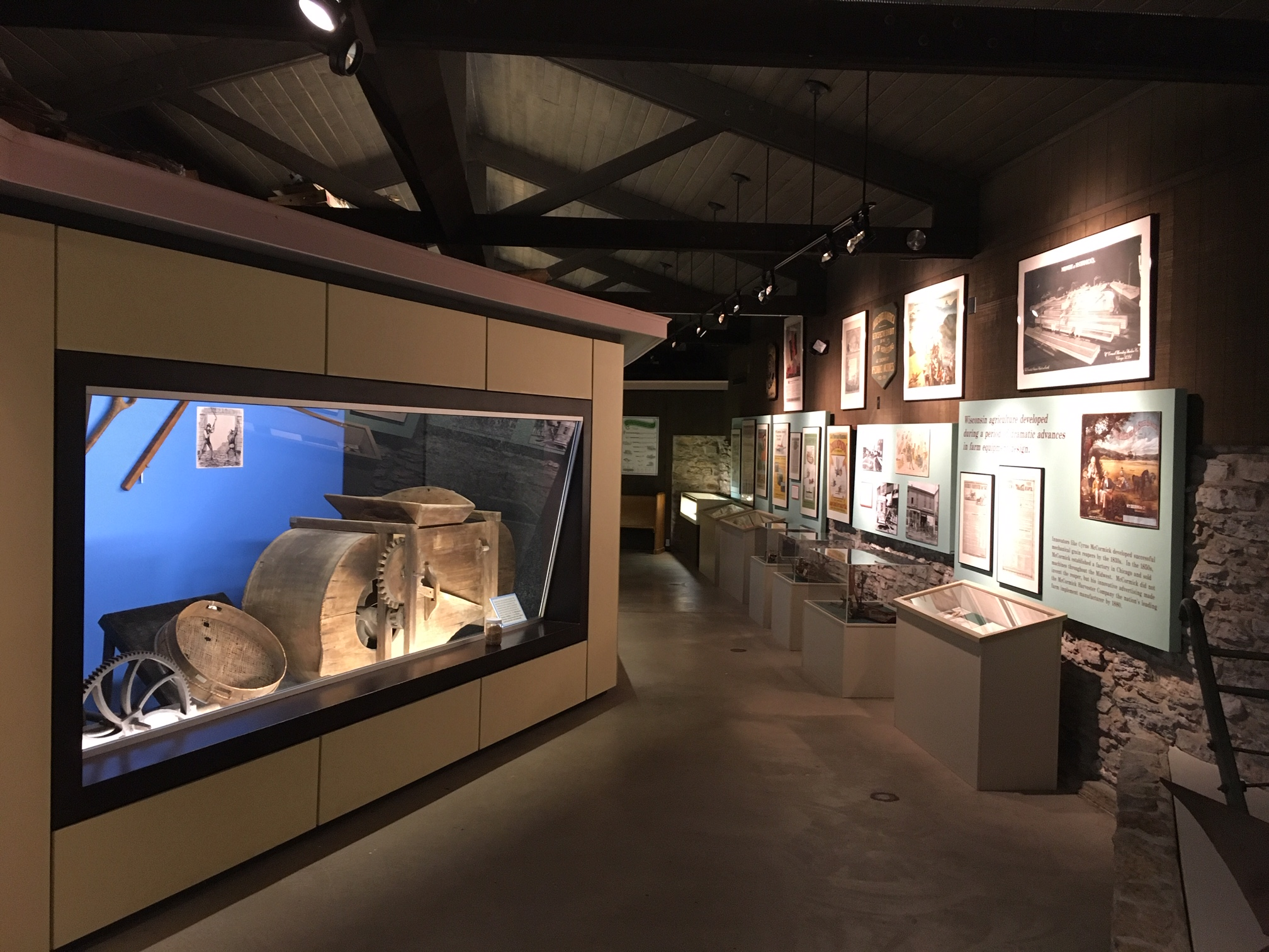 Interior of Wisconsin State Agriculture Museum at Stonefield showing exhibits of farm equipment and models.